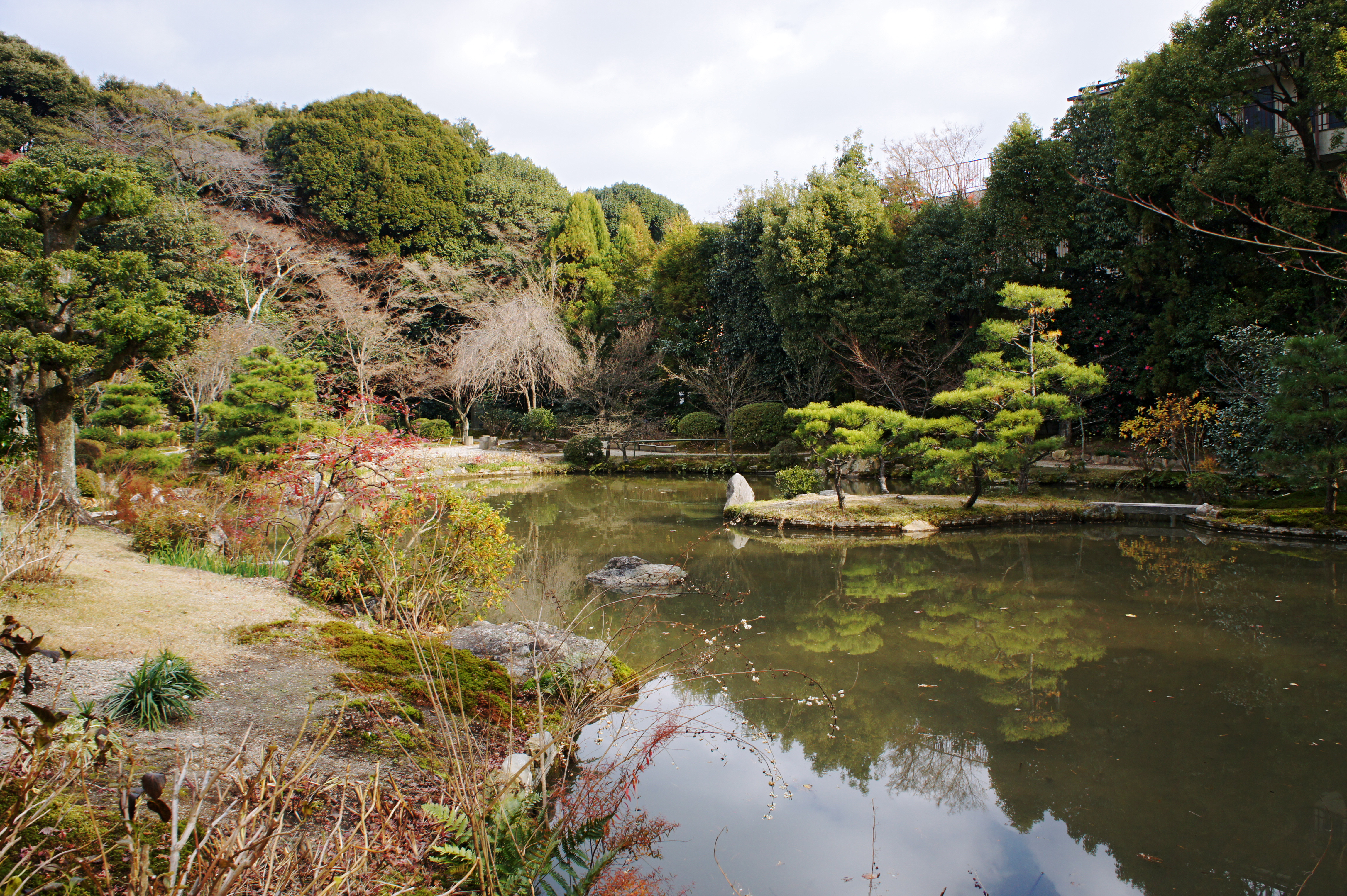 Hōkongō-in in Ukyō-ku, Kyoto, Kyoto Prefecture, Japan. Seijo-no-taki of Hōkongō-in Garden that is an extremely important cultural asset of Japan "Special Places of Scenic Beauty"